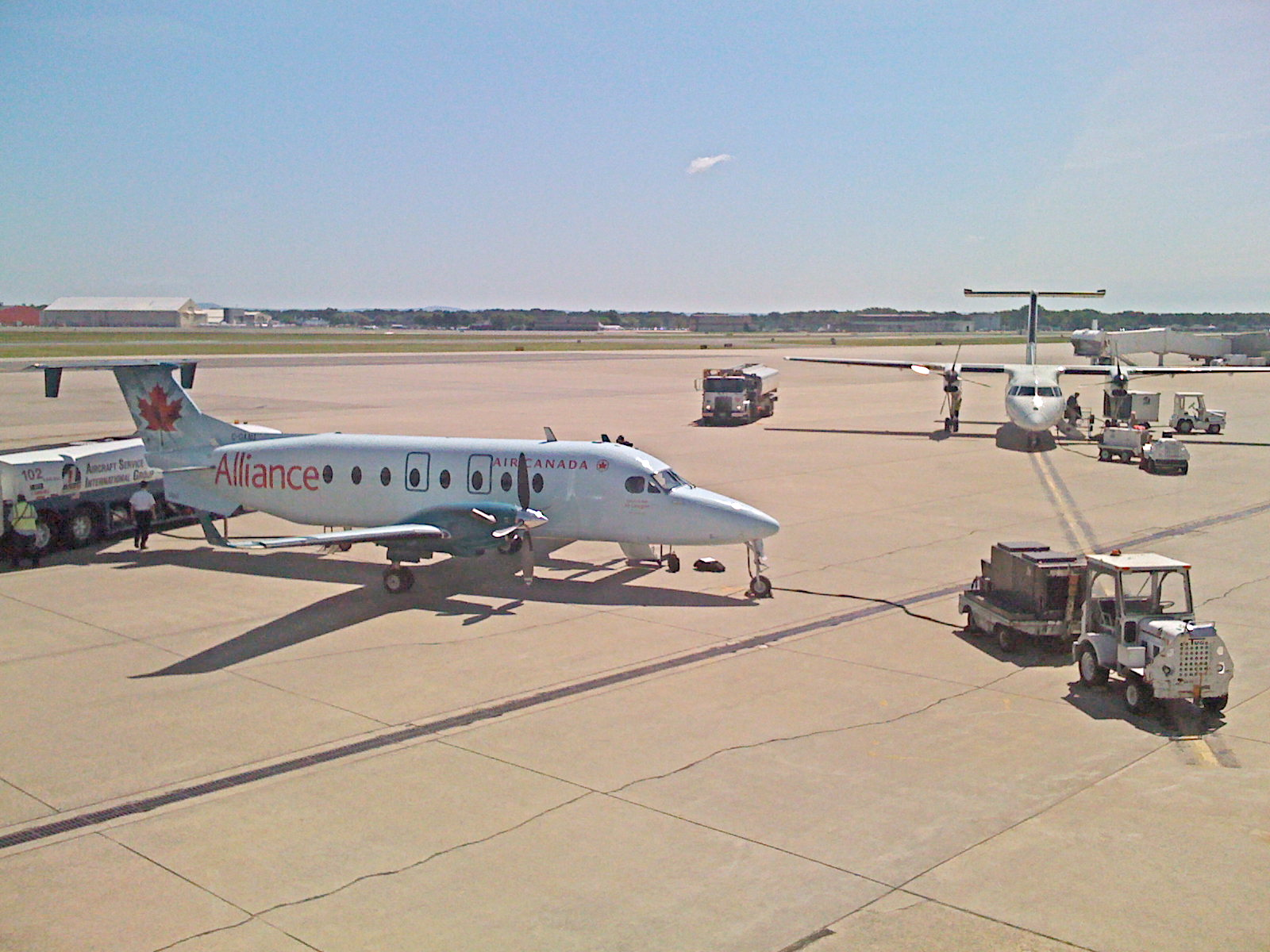 An Air Georgian Beechcraft 1900D (left) and an Air Canada Jazz Dash 8-Q100 (right) at Bradley International Airport (Hartford), Windsor Locks, Connecticut